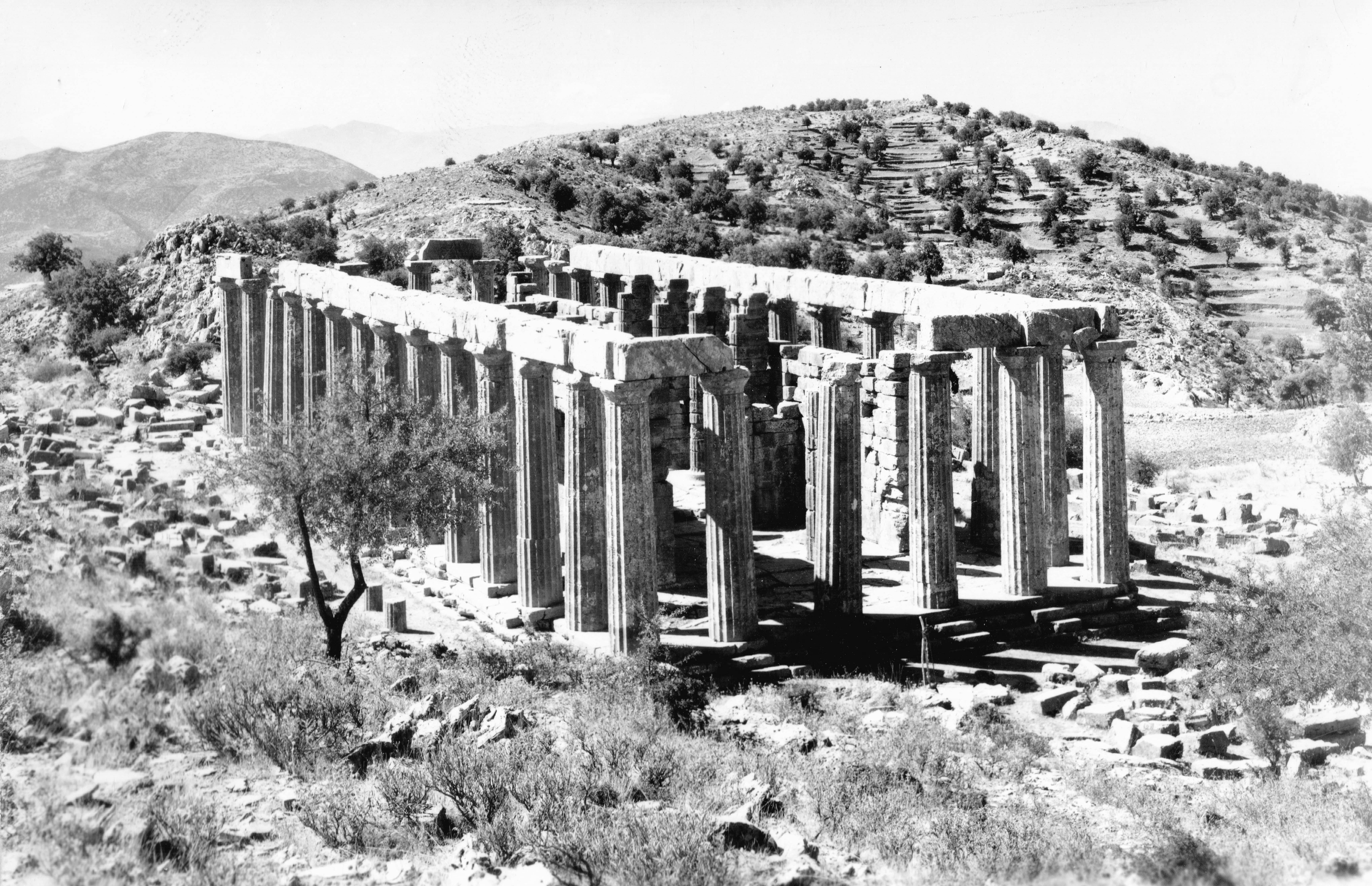 The temple before restoration in the early 1970s